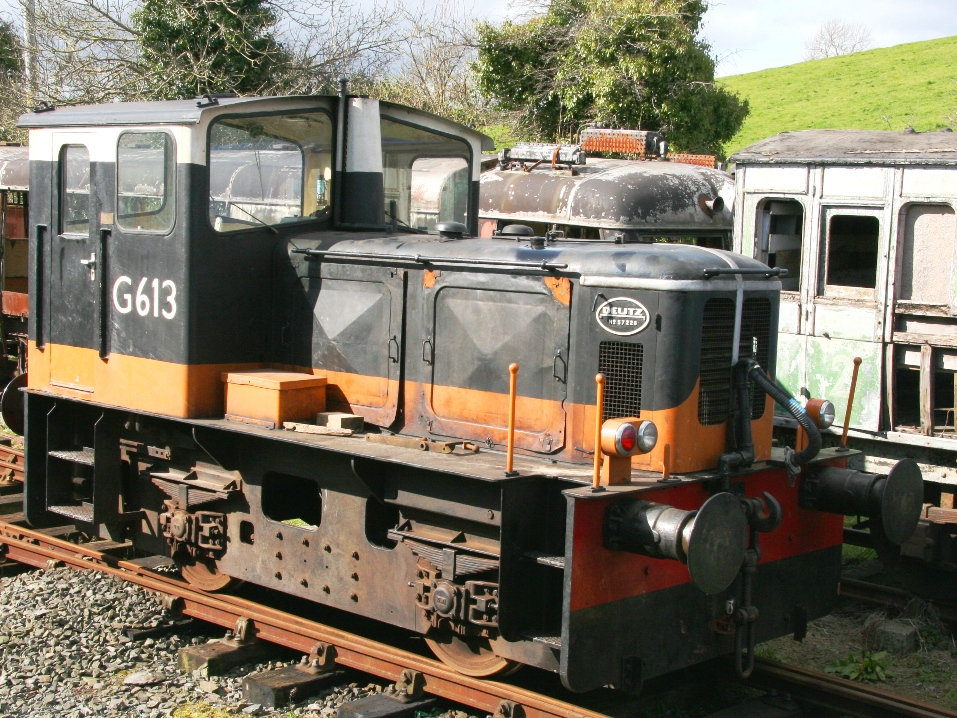 CIE G Class Shunter